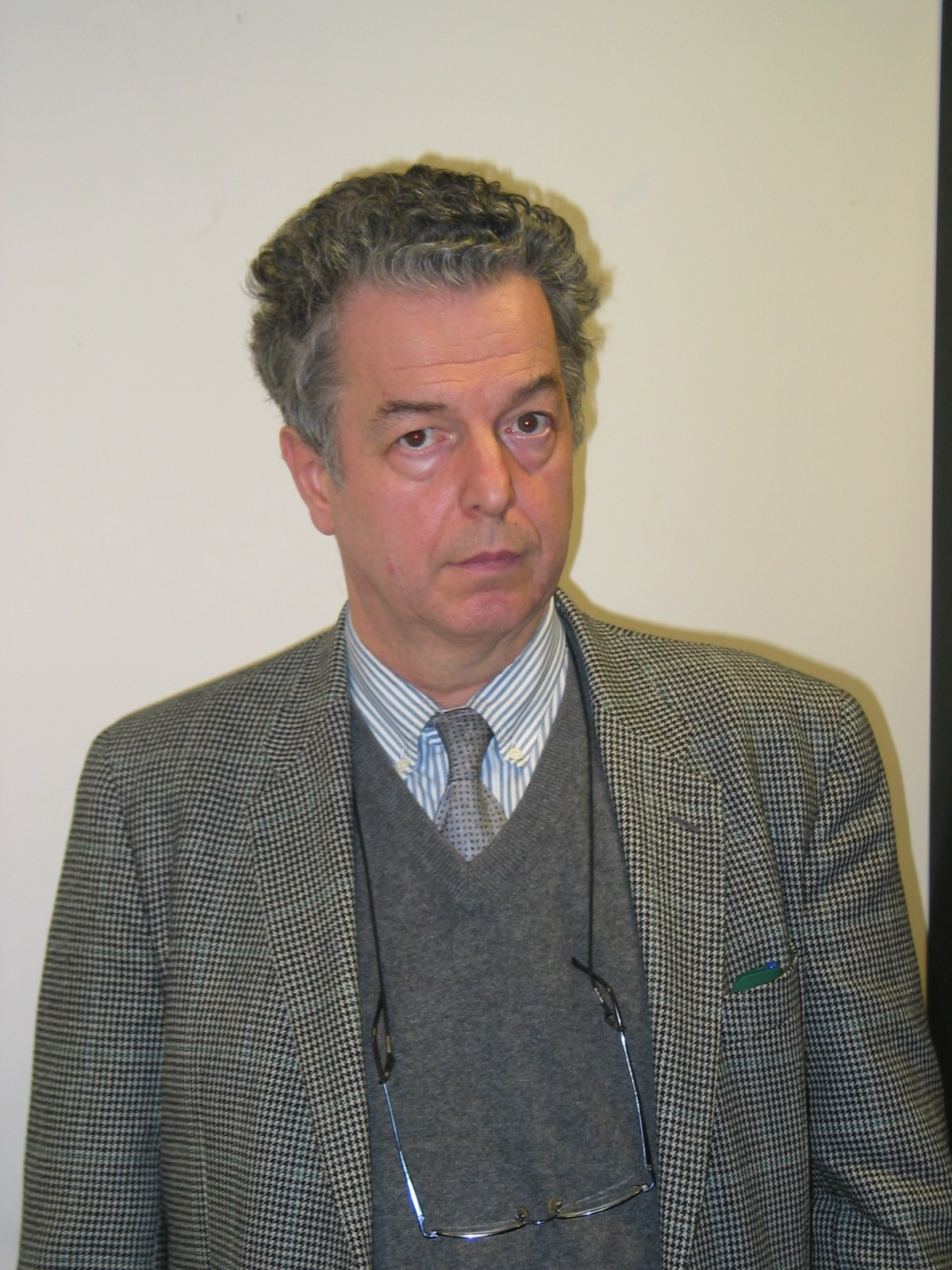 Image of Prof. Maurizio Mori